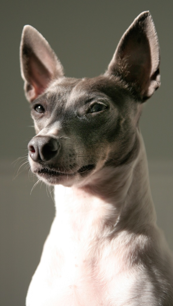 This is an example of a rat terrier with a blue coat. Note the pale, or "diluted," coloring of the nose and eyes.